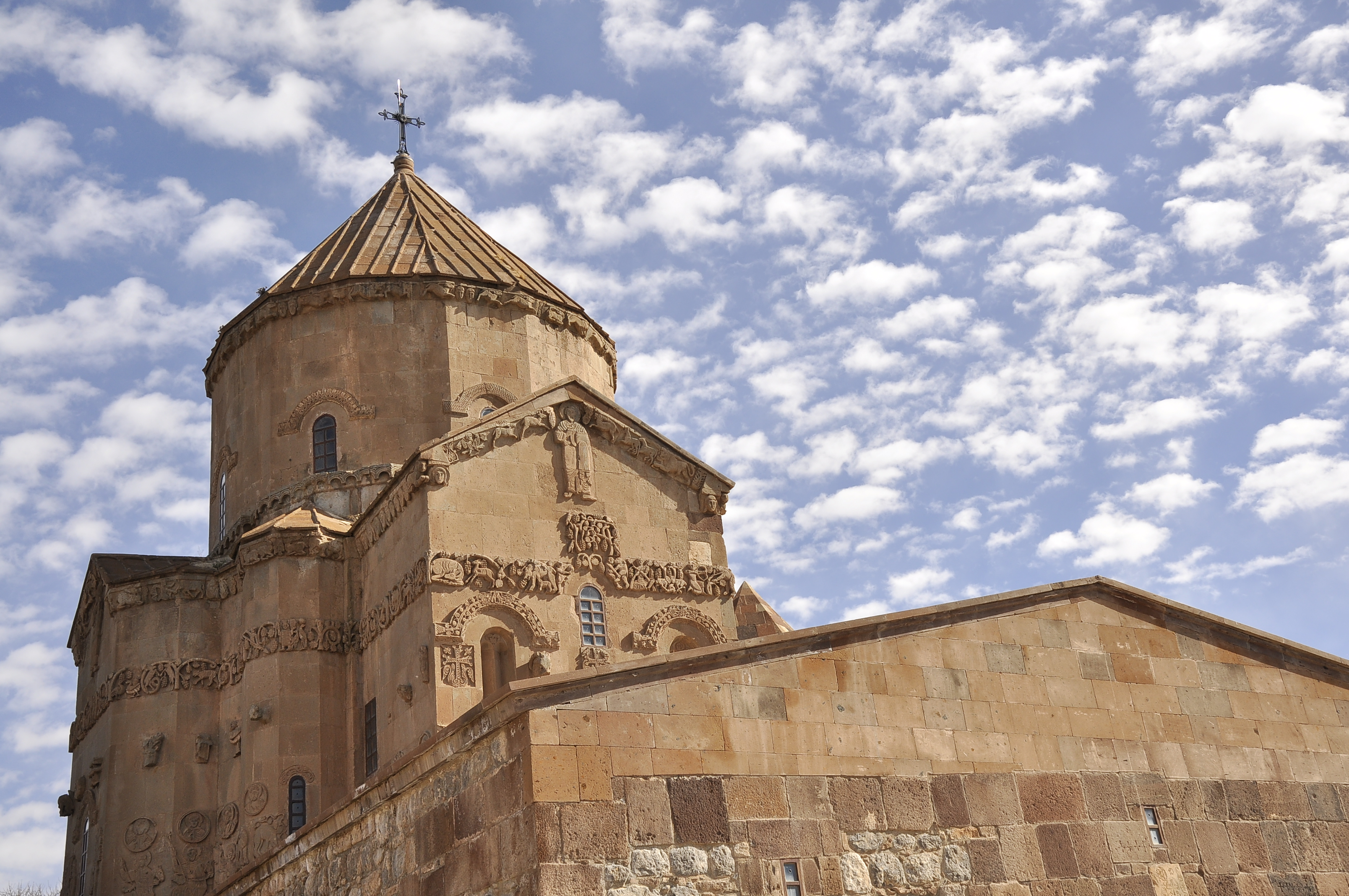 The Church of the Holy Cross on Akhtamar Island, was a medieval cathedral of the Armenian Apostolic Church, built as a palatine church for the kings of Vaspurakan and later serving as the seat of the Armenian Catholicosate of Aght'amar.